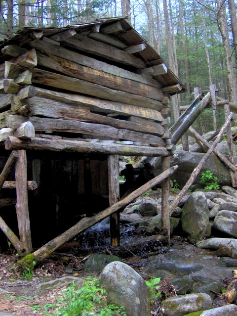 Tub mill at the Noah "Bud" Ogle place near Cherokee Orchard, GSMNP, in East Tennessee. The sloping log on the right was part of the mill race, which carried water from a nearby stream to turn the tire-shaped turbine, known as a tub wheel. The mill, which is still operational, was mainly used to grind corn and wheat.